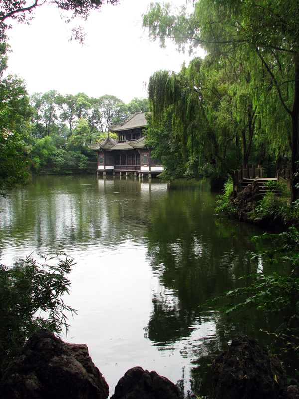 Sheng'an Guihu, a classical Szechwanese garden in Chengdu